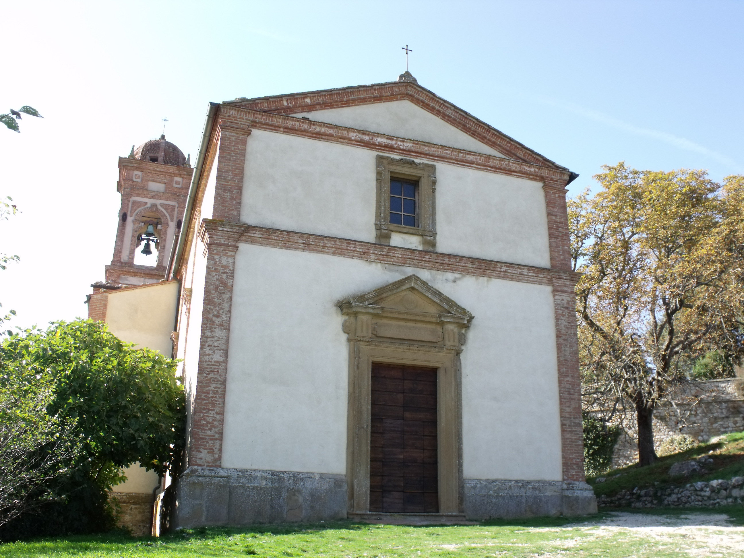 Chiesa Del Triano / Triano Church in Montefollonico, Torrita di Siena, Province of Siena, Tuscany, Italy